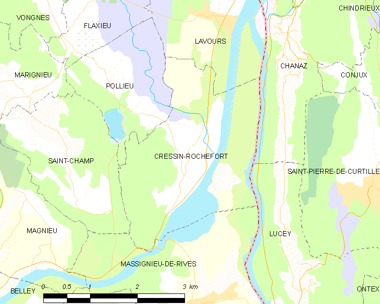 Map of French commune: Cressin-Rochefort Map commune FR insee code 01133.png